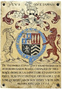 Garter stall-plate of John Russell, 1st Earl of Bedford (c. 1485 – 14 March 1554/1555), KG, nominated to the Order in 1539. The arms are blazoned: quarterly of four: 1st grand quarter: quarterly 1st & 4th: Argent, a lion rampant gules on a chief sable three escallops of the first (Russell); 2nd & 3rd: Azure, a tower argent (de la Tour); 2nd grand quarter: Gules, three herrings hauriant argent (Herringham); 3rd: Sable, a griffin segreant between three crosses crosslet fitchy argent (Froxmere); 4th: Sable, three chevronnels ermine in dexter chief a crescent or for difference (Wyse).[1] Crest: A goat statant argentarmed and unguled or; Supporters: Dexter: A goat argent, Sinister: A lion rampant gules (Debrett's Peerage, 1968, p.131, with supporters on exchanged sides) Motto: Plus que Jamais ("More than Never"). Inscription: Du tres noble et puisant Seigneur Johan Conte de Bedford Baron Russell Chevalier du tres noble Ordre de la Jarretiere et Garduen du Prive Seau, fust enstalle a Wyndsor le XVIII jure de Maye l'an du Roy Henry VIII de son reigne XXXI l'an 1539 ("Of the very noble and powerful Lord John, Earl of Bedford, Baron Russell, Knight of the Very Noble Order of the Garter and Keeper of the Privy Seal, was installed at Windsor the 18th day of May the year of King Henry VIII of his reign the 31st, the year 1539"). References ↑ "Heraldry of the Bedford Chapel, Chenies, Bucks".